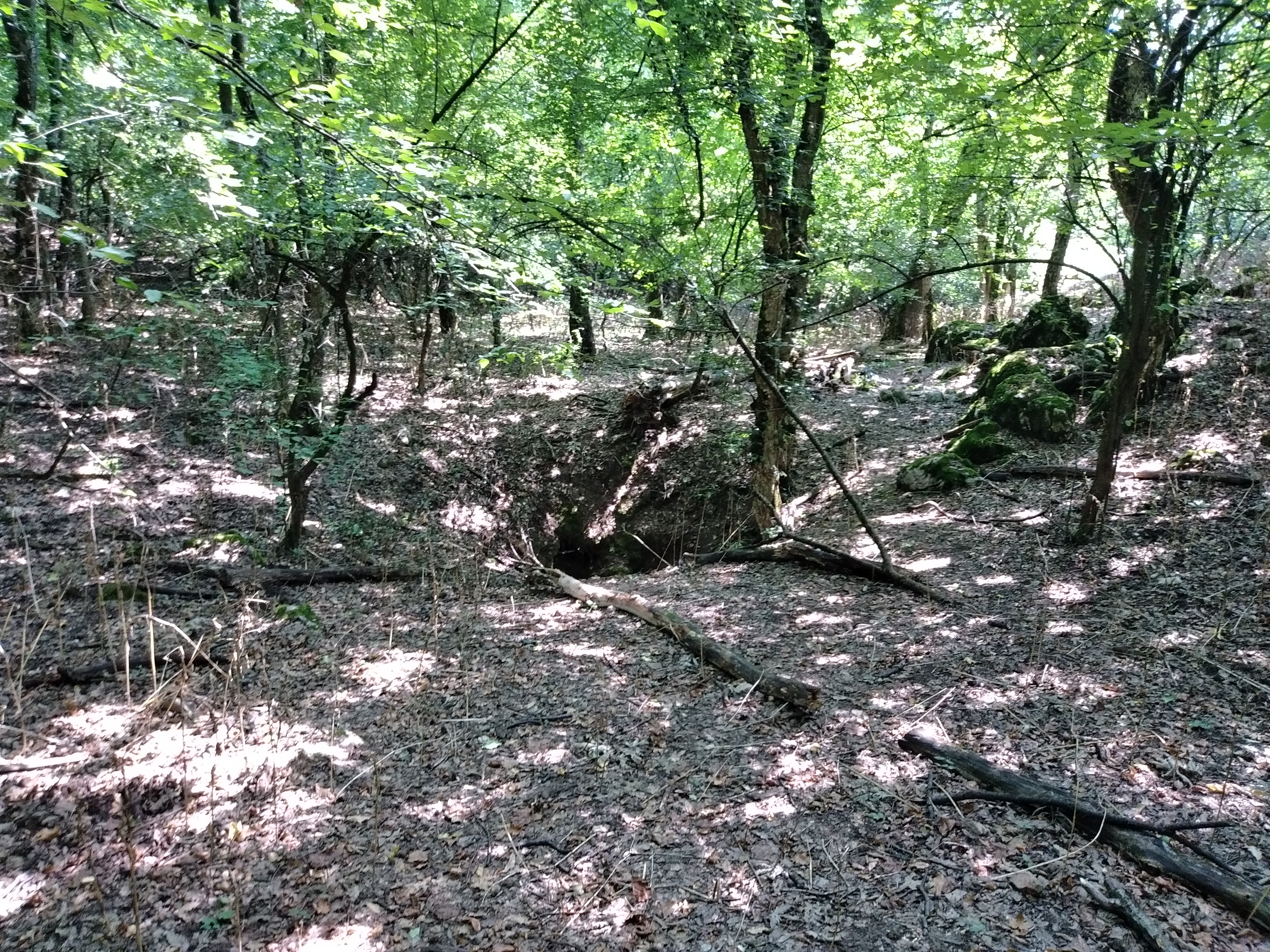 Entrance of Nyári Cave in Tatabánya.